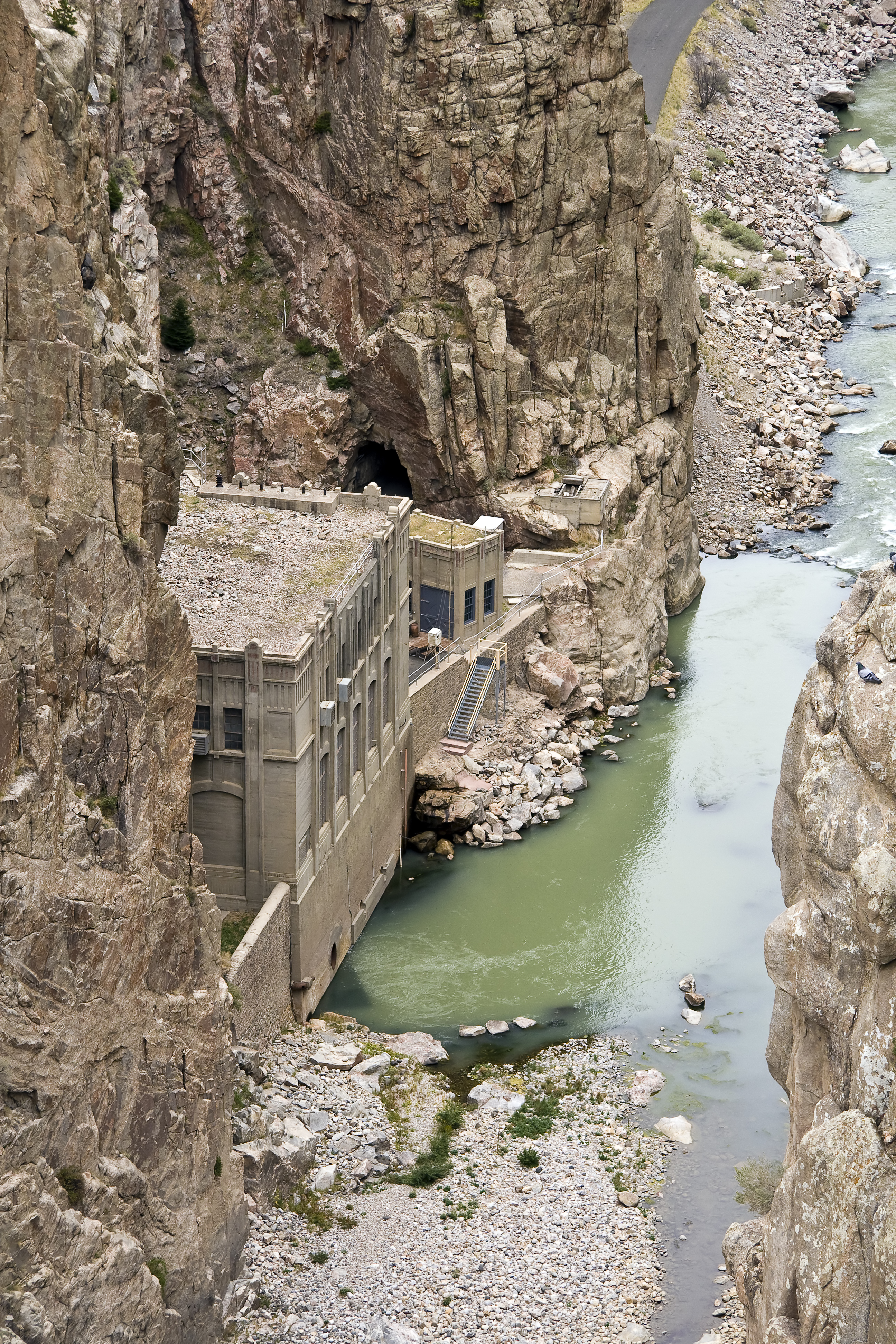 Shoshone Powerplant at the base of Buffalo Bill Dam near Cody, Wyoming, USA